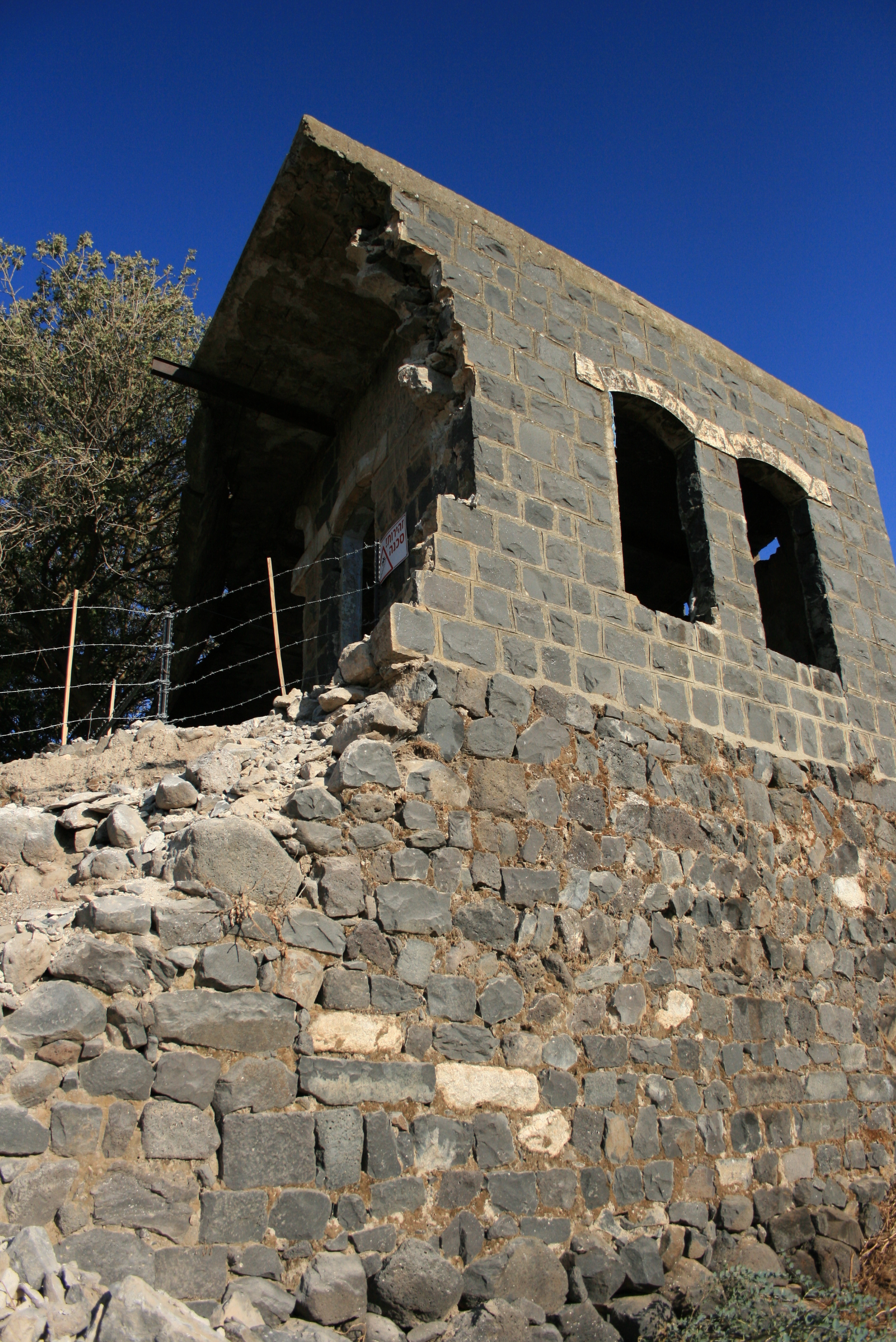 The former Syrian town of Fiq, southern Golan Heights, Israel.